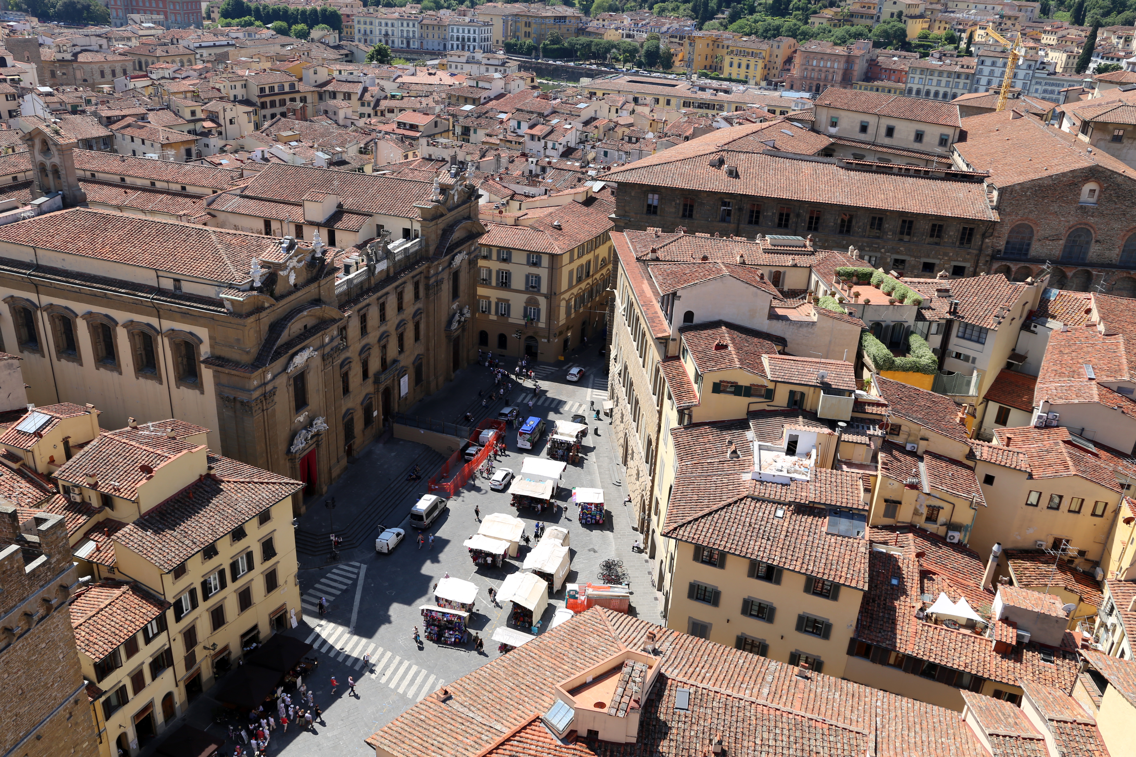 Badia fiorentina - Belltower - View from